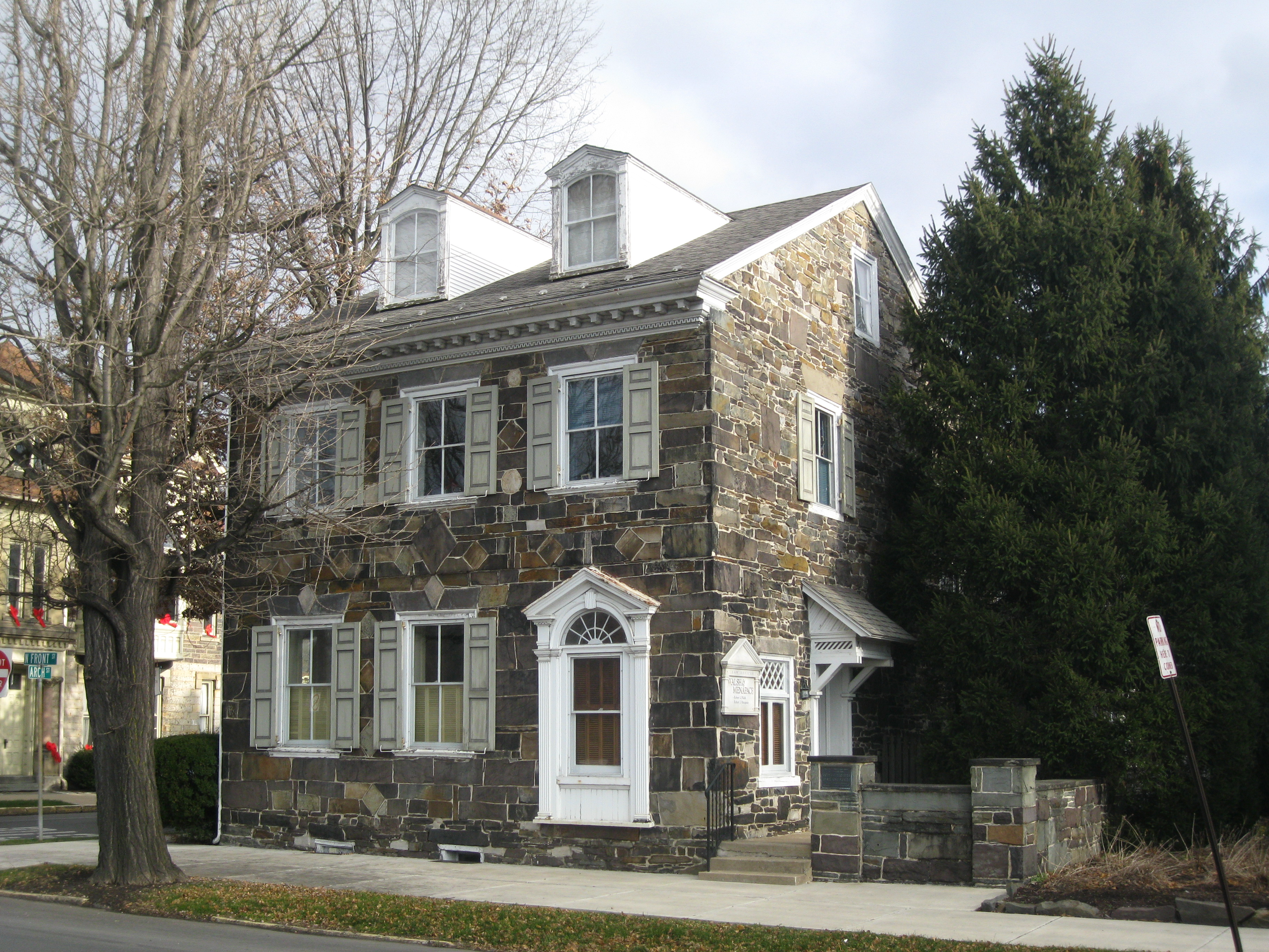 The Beck House at 62 North Front Street in the city of Sunbury, in Northumberland County, Pennsylvania in the USA. Listed on the National Register of Historic Places.